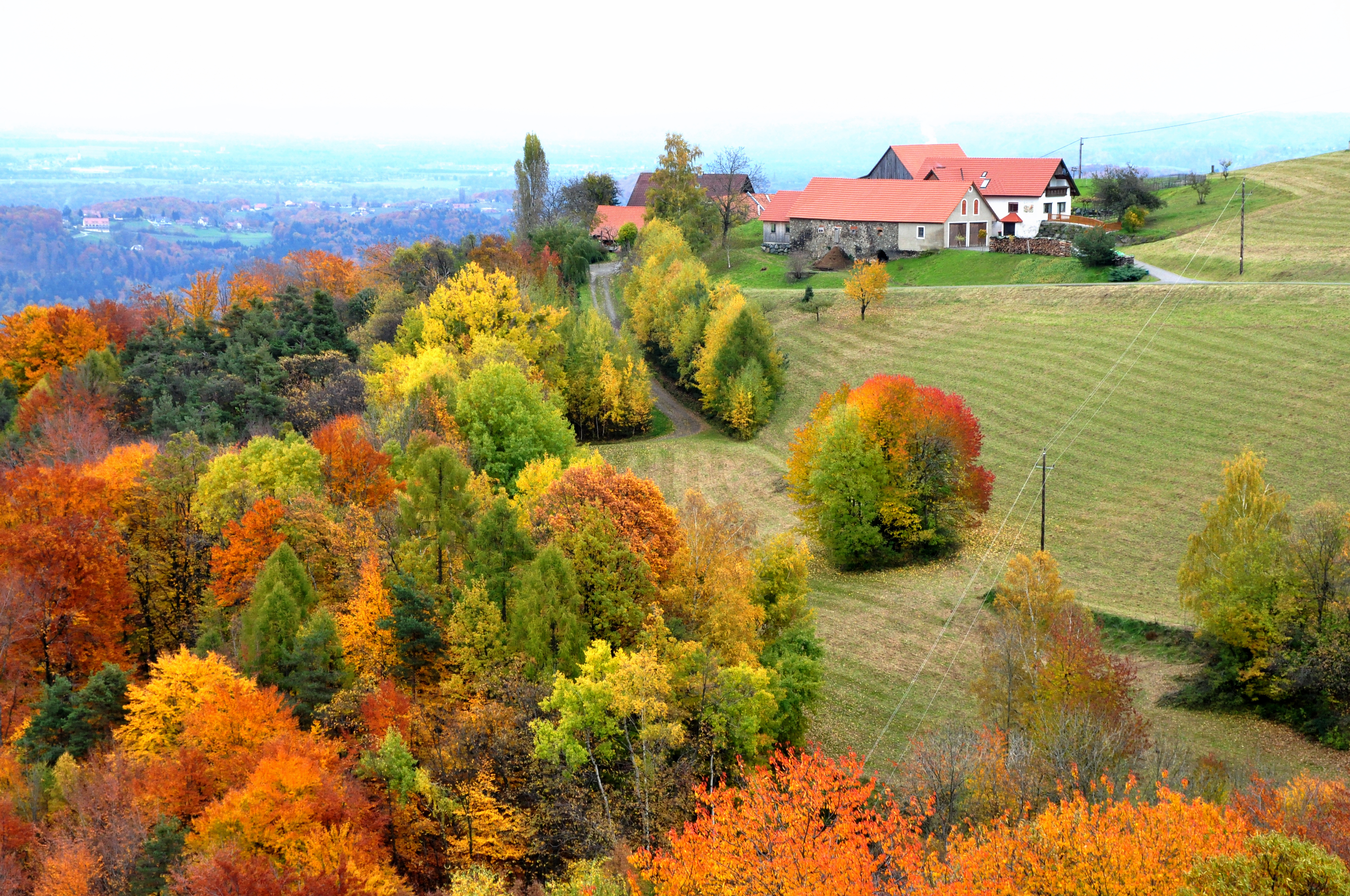 Farmhouses at Kitzeck im Sausal, municipality Preitenegg, district Leibnitz, Styria, Austria